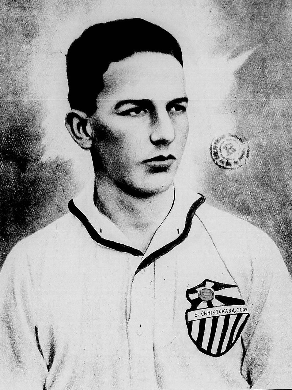 Luíz Vinhaes (1896-1960), association football player, coach, functionary, in the shirt of São Cristóvão AC (RJ)